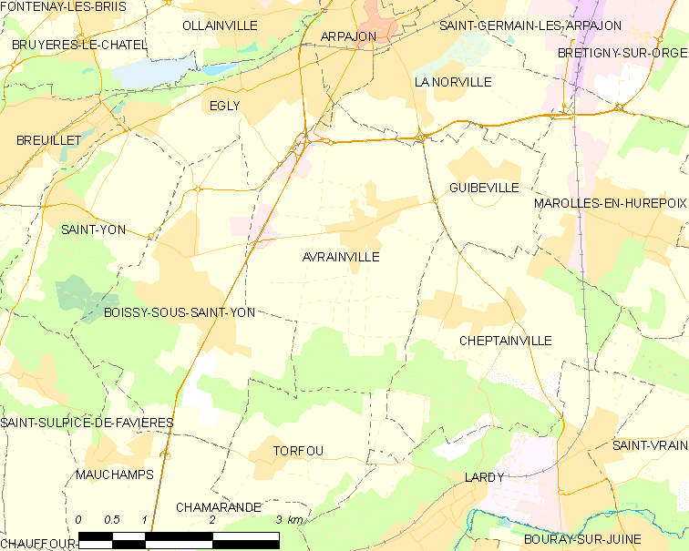 Map of French municipality Avrainville